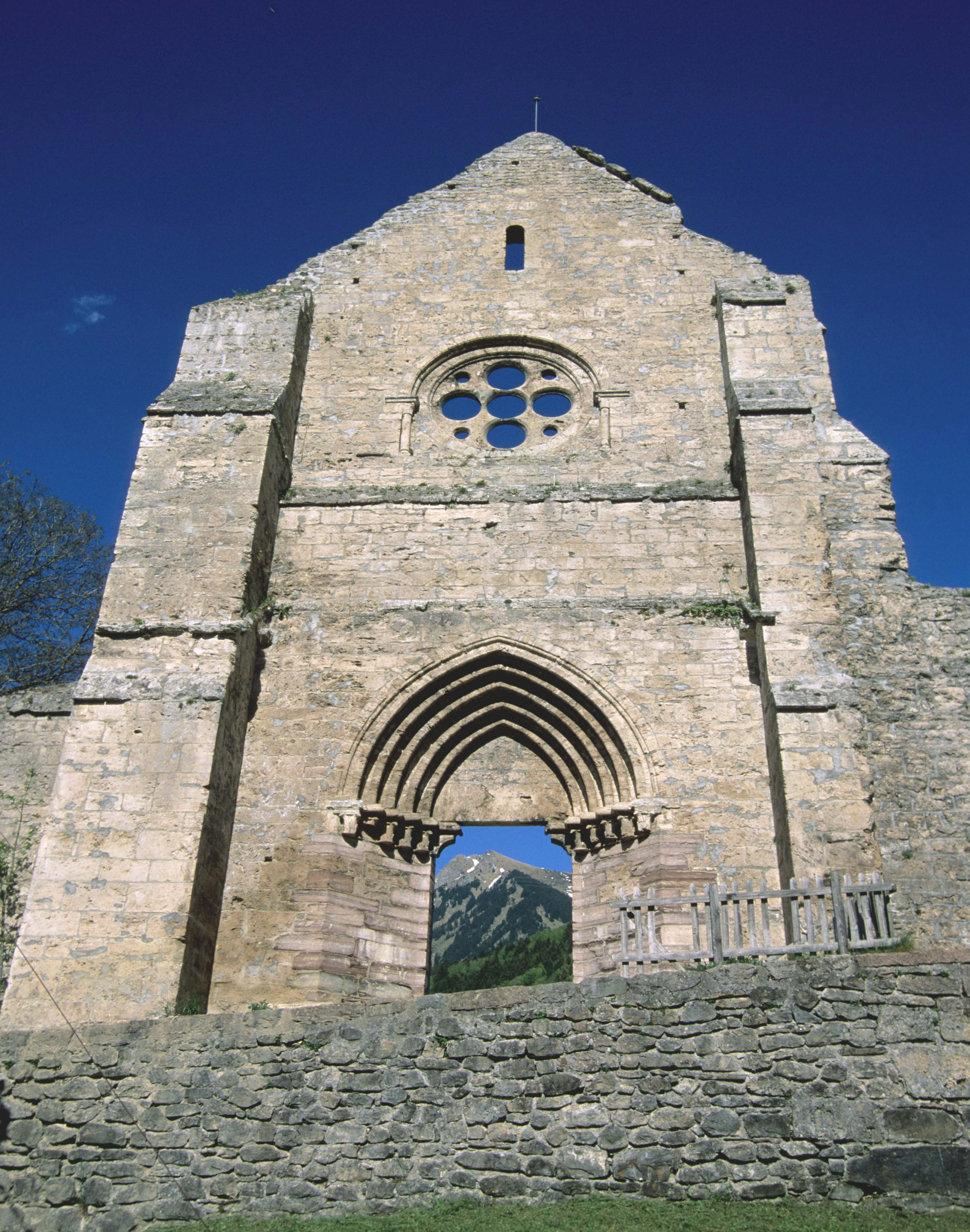 La façade de l'abbaye d'Aulps. Yvan Tisseyre/OTVA